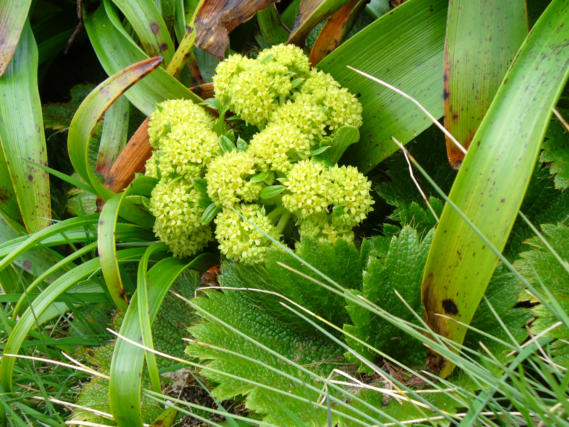 Stilbocarpa polaris, also known as the Macquarie Island Cabbage. This is part of a megaherb community growing on Campbell Island, one of the sub-antarctic islands of New Zealand. The strap-like leaves belong to Bulbinella rossi. This photograph was taken by and originally posted to flikr by Twiddleblatt, under the title 'Stilbocarpa Polaris on Campbell Island'.